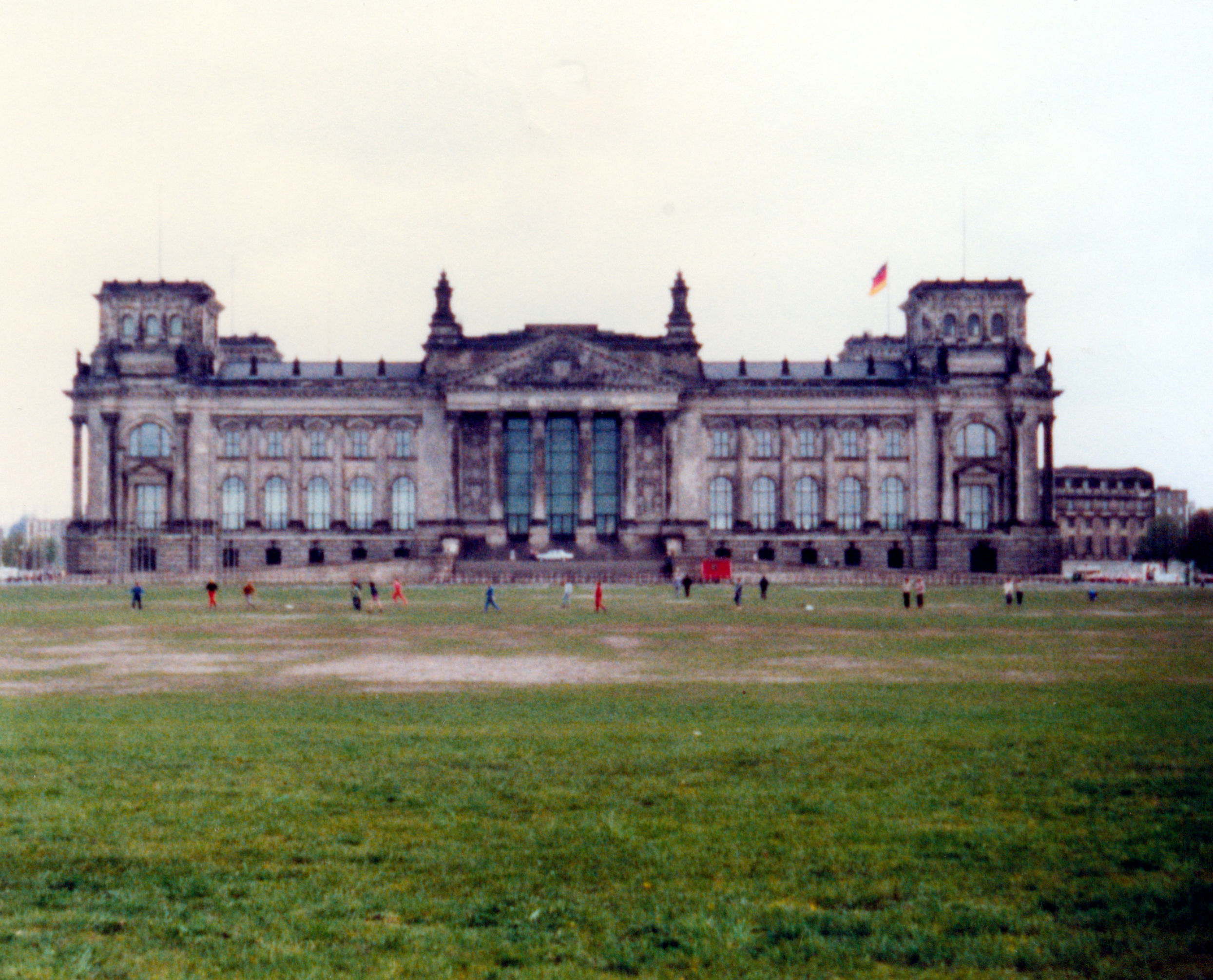 Reichstag Berlin (1982)